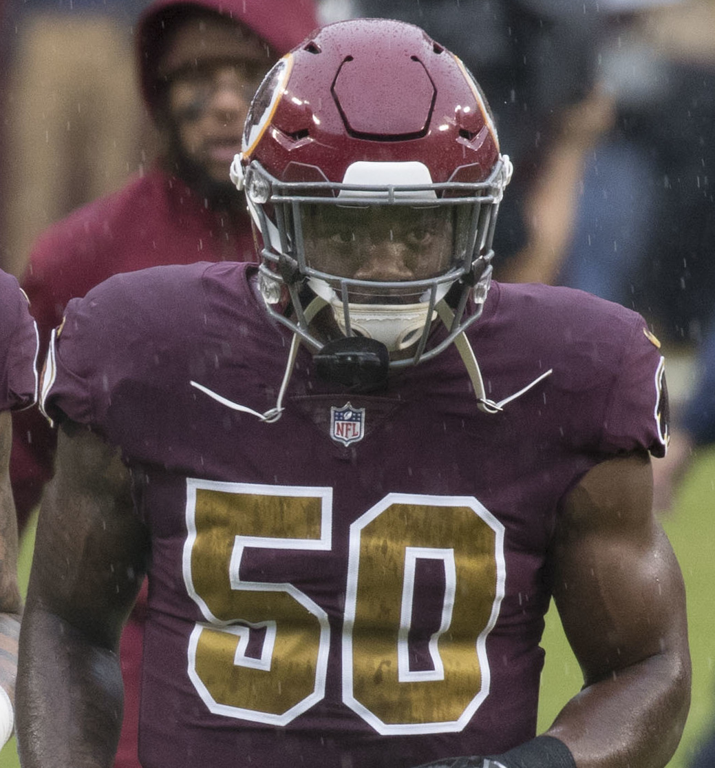 Washington Redskins linebackers, Preston Smith and Martrell Spaight, during a game against the Dallas Cowboys on October 29, 2017.